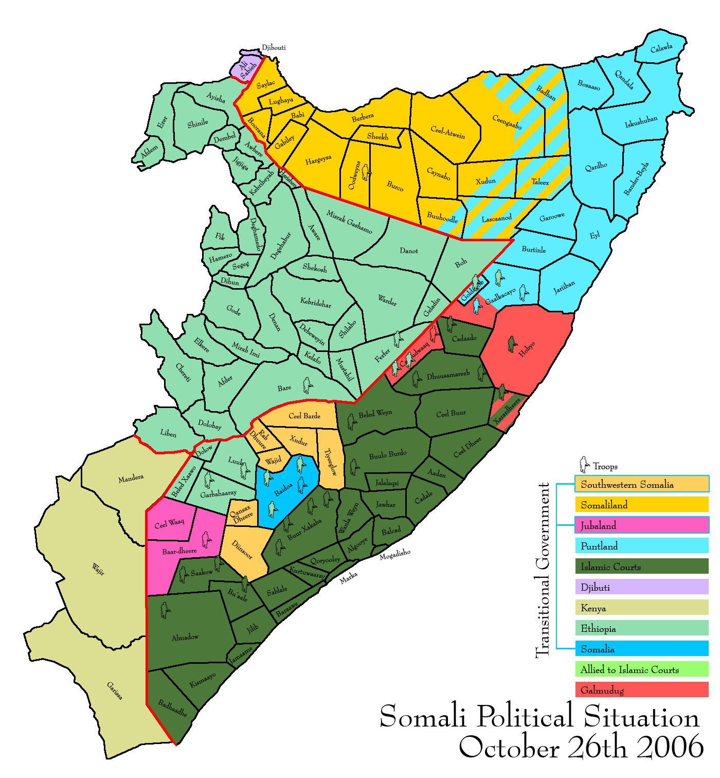 Somali political situation as of October 26, 2006.